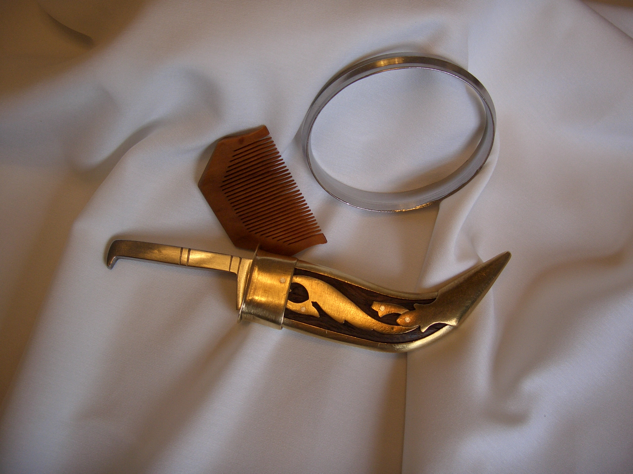 Sikhism Related Photo of Kanga, Kara and Kirpan - three of the five articles of faith.